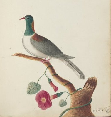 Painting of the Norfolk Island Pigeon (Hemiphaga novaeseelandiae spadicea), an extinct subspecies of the New Zealand Pigeon